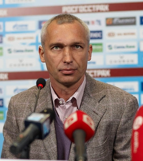 Oleh Protasov